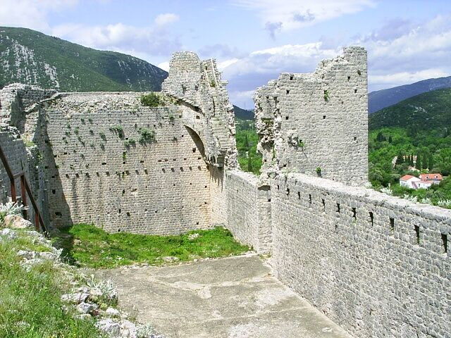 Town of Mali Ston at Pelješac peninsula, Croatia